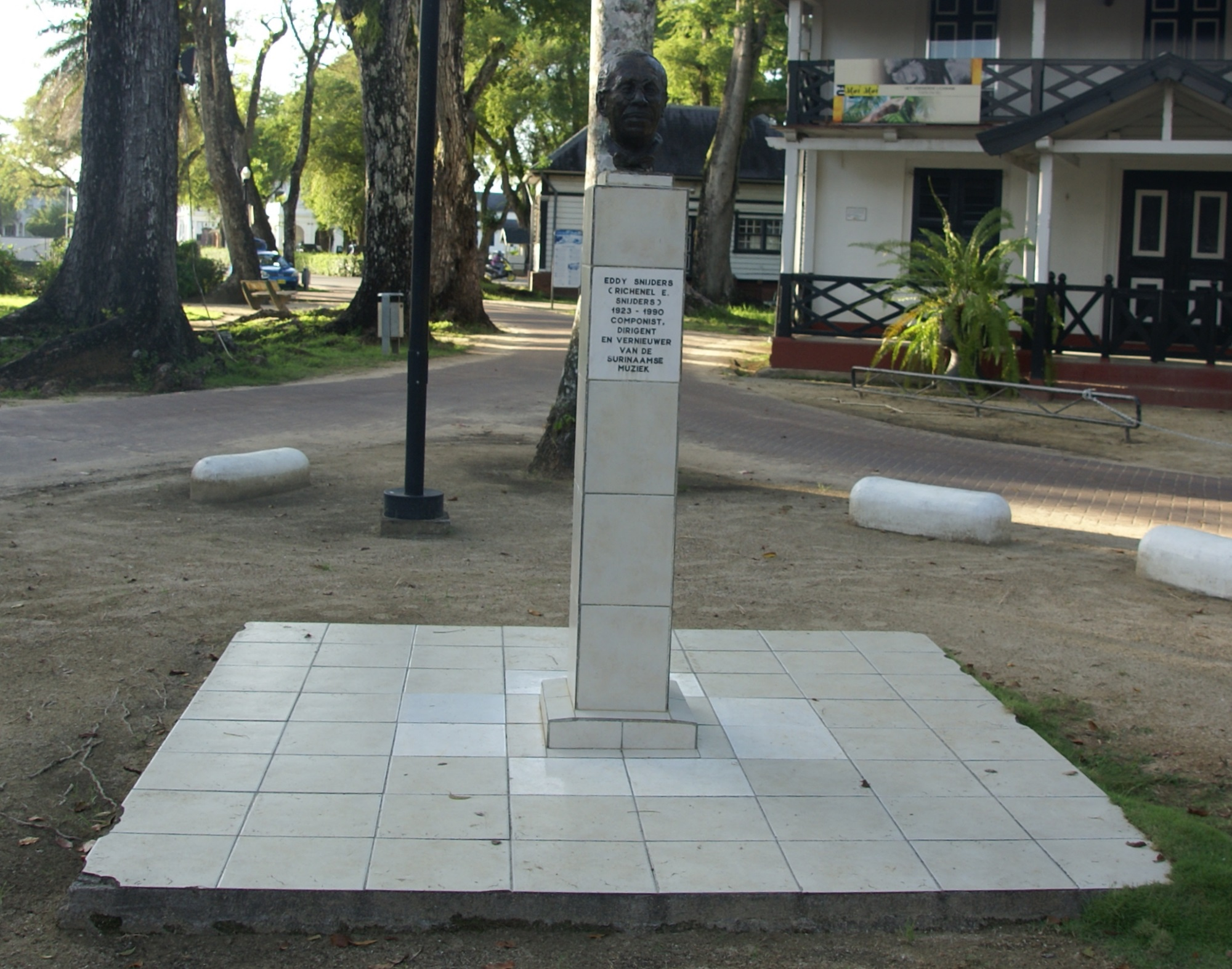 Bust of Eddy Snijders, composer, Zeelandiaweg, Paramaribo, Surinam. By Erwin de Vries, 2003.